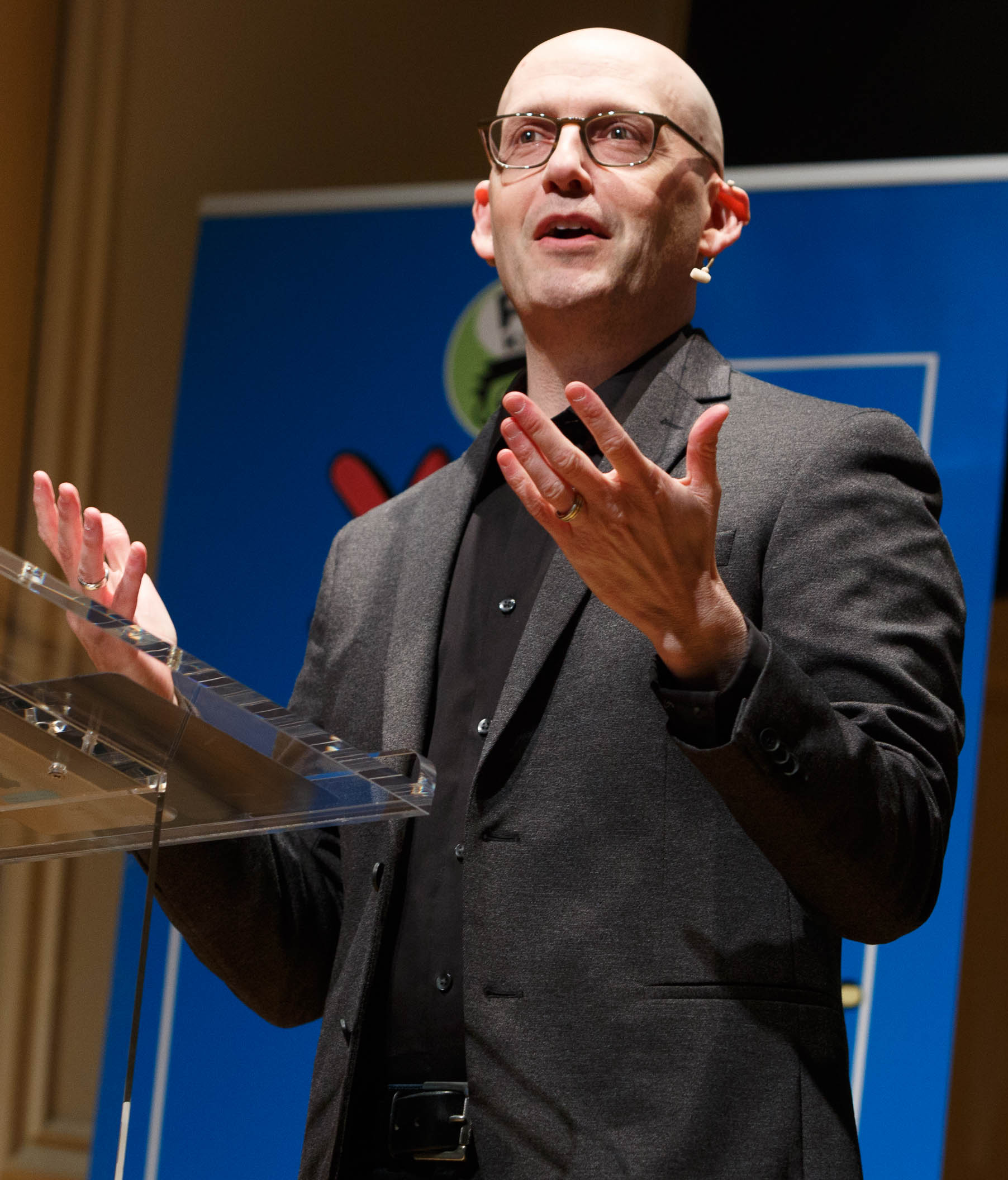 Author Brad Meltzer speaks during a "National Book Festival Presents" series event, November 8, 2019. Photo by Shawn Miller/Library of Congress. Note: Privacy and publicity rights for individuals depicted may apply.